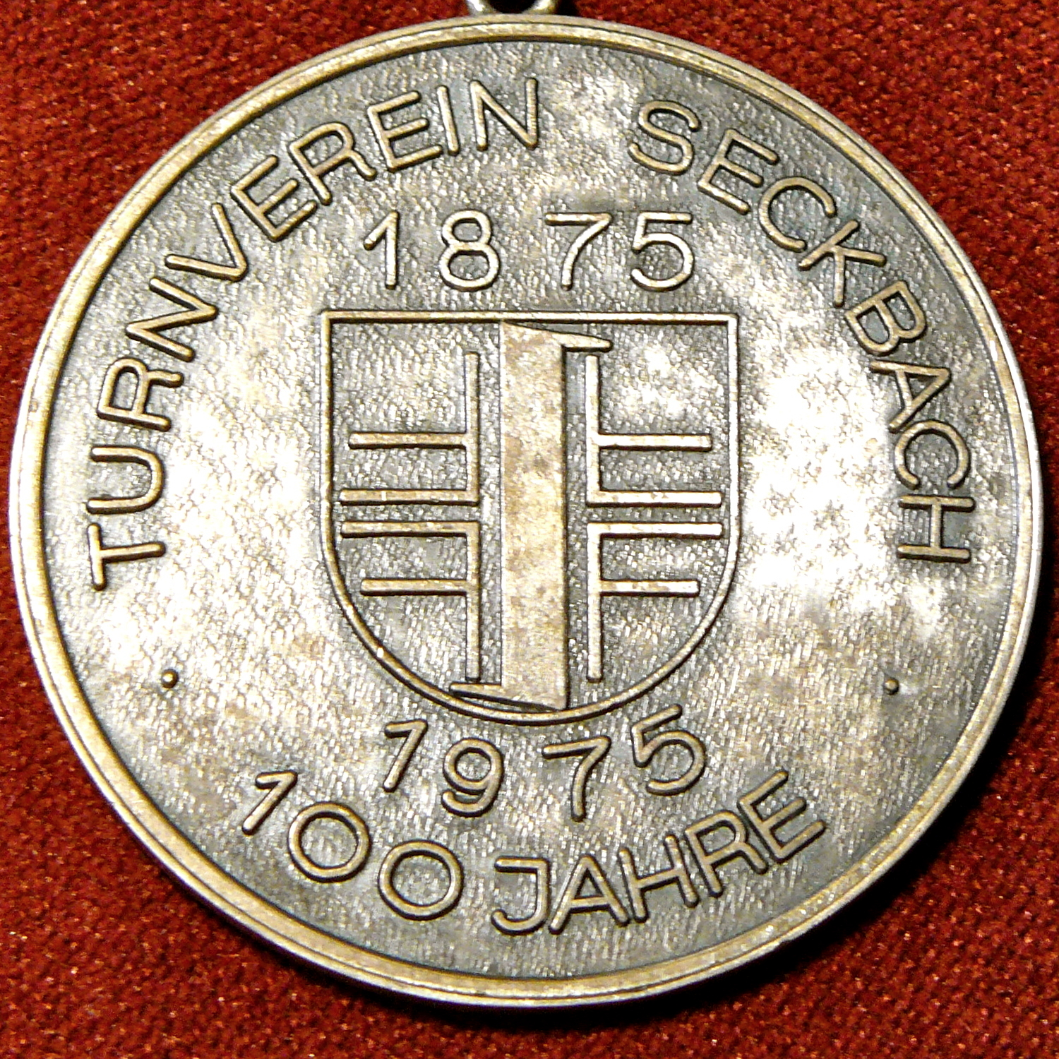 Medal 100 Years Turnverein Seckbach 1875 (Frankfurt am Main, Hesse, Germany), backside